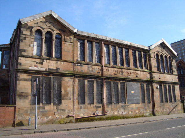 Derelict school buildings, Broomloan Road, Govan